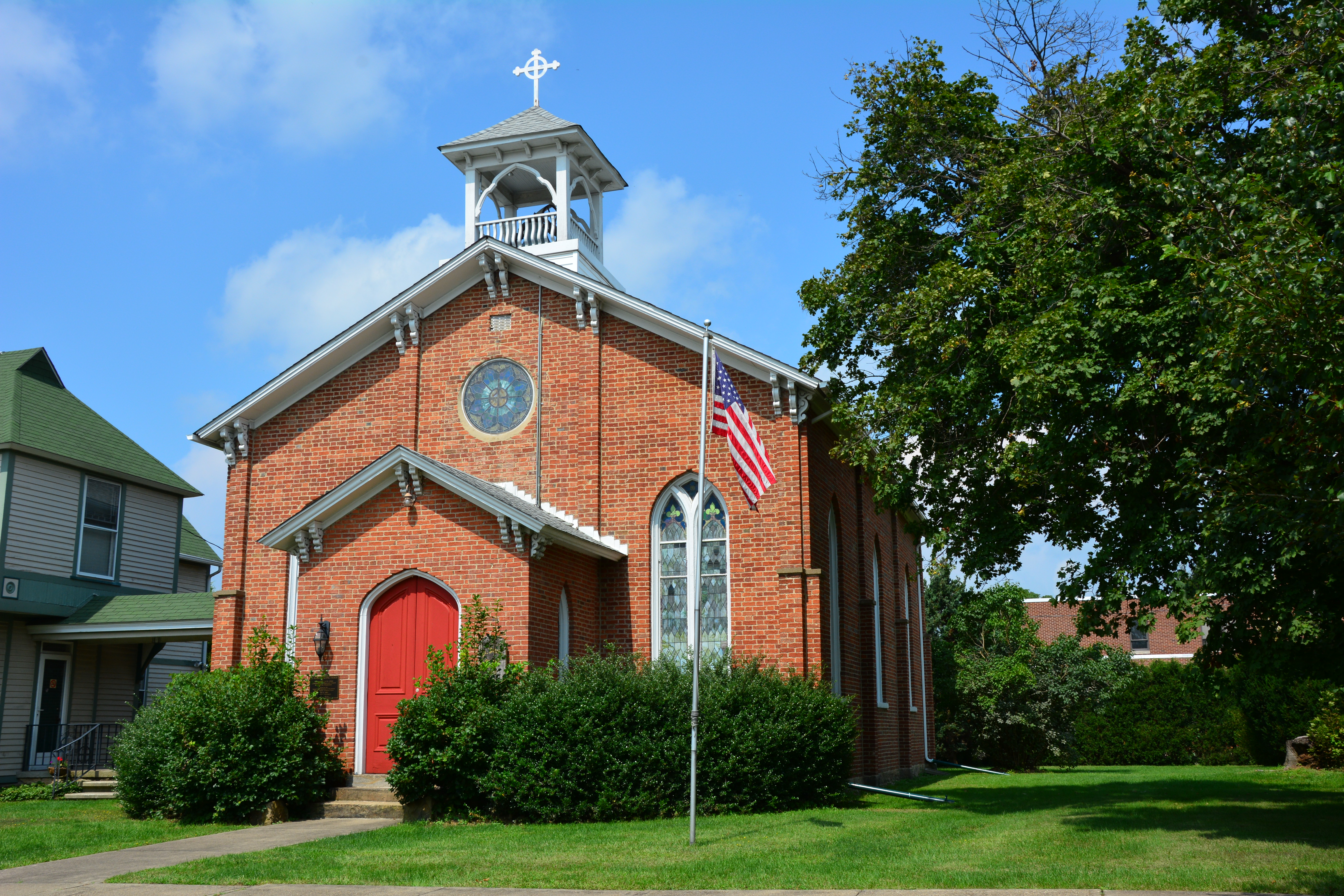 St. Peter's Episcopal Church and Rectory (built 1830) at 36–38 West Campbell Street, Blairsville, Pennsylvania